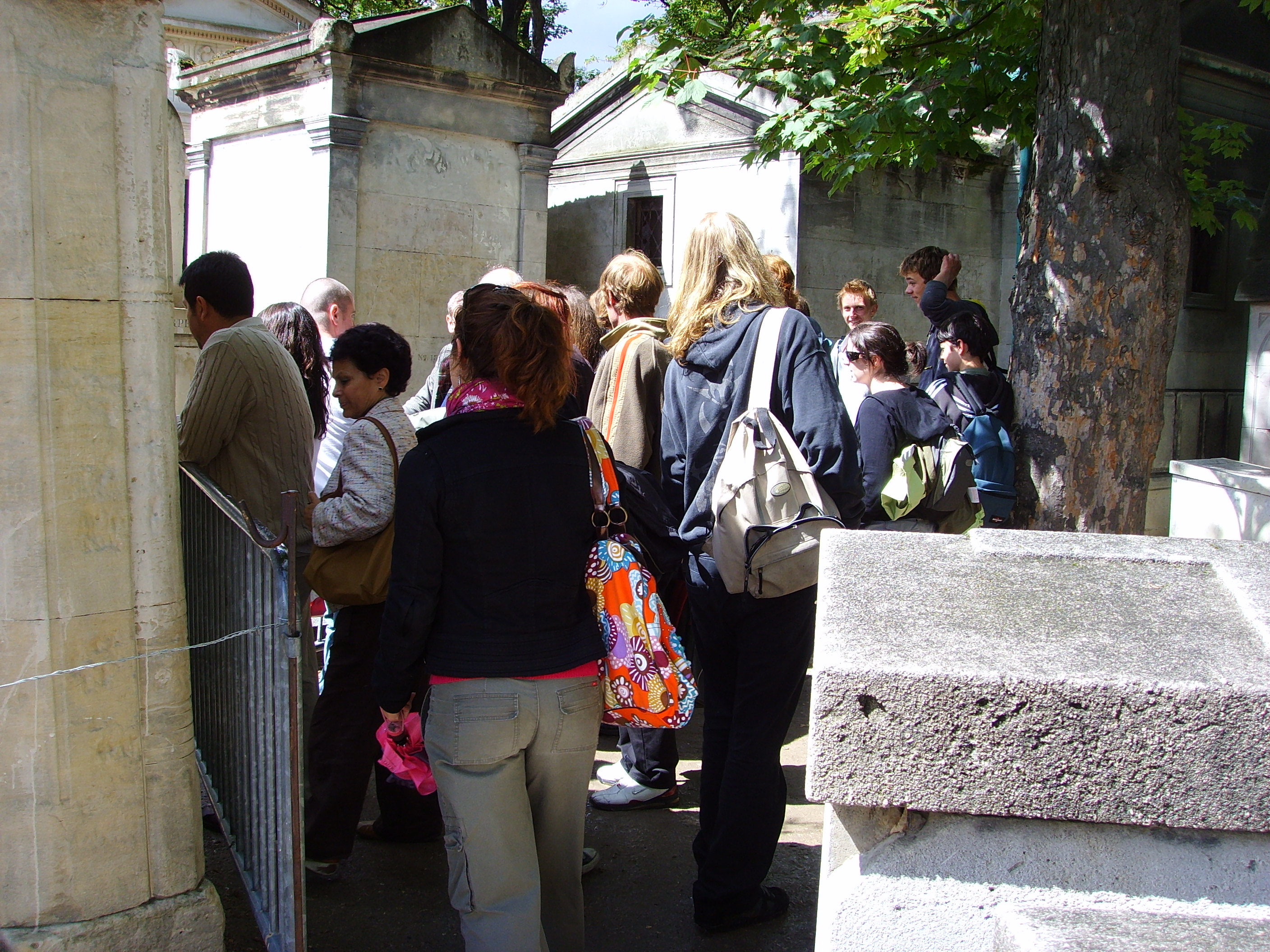 Tourists near the grave of Jim Morrison, Pere Lachaise, Paris